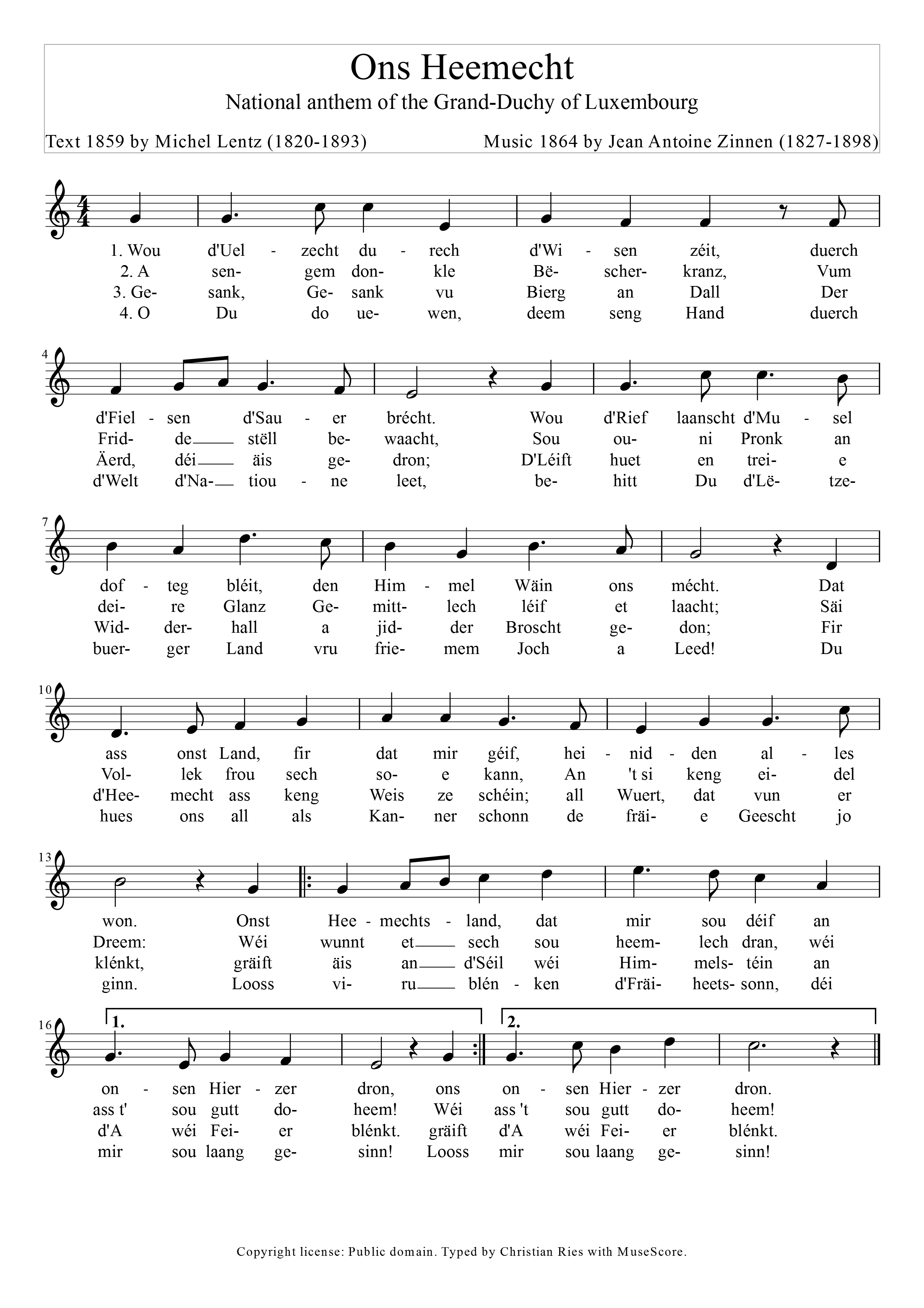 Ons Heemecht is the national anthem of Luxembourg. The melody is from Jean-Antoine Zinnen (1827-1898) and the lyrics are from Michel Lentz (1820-1893).